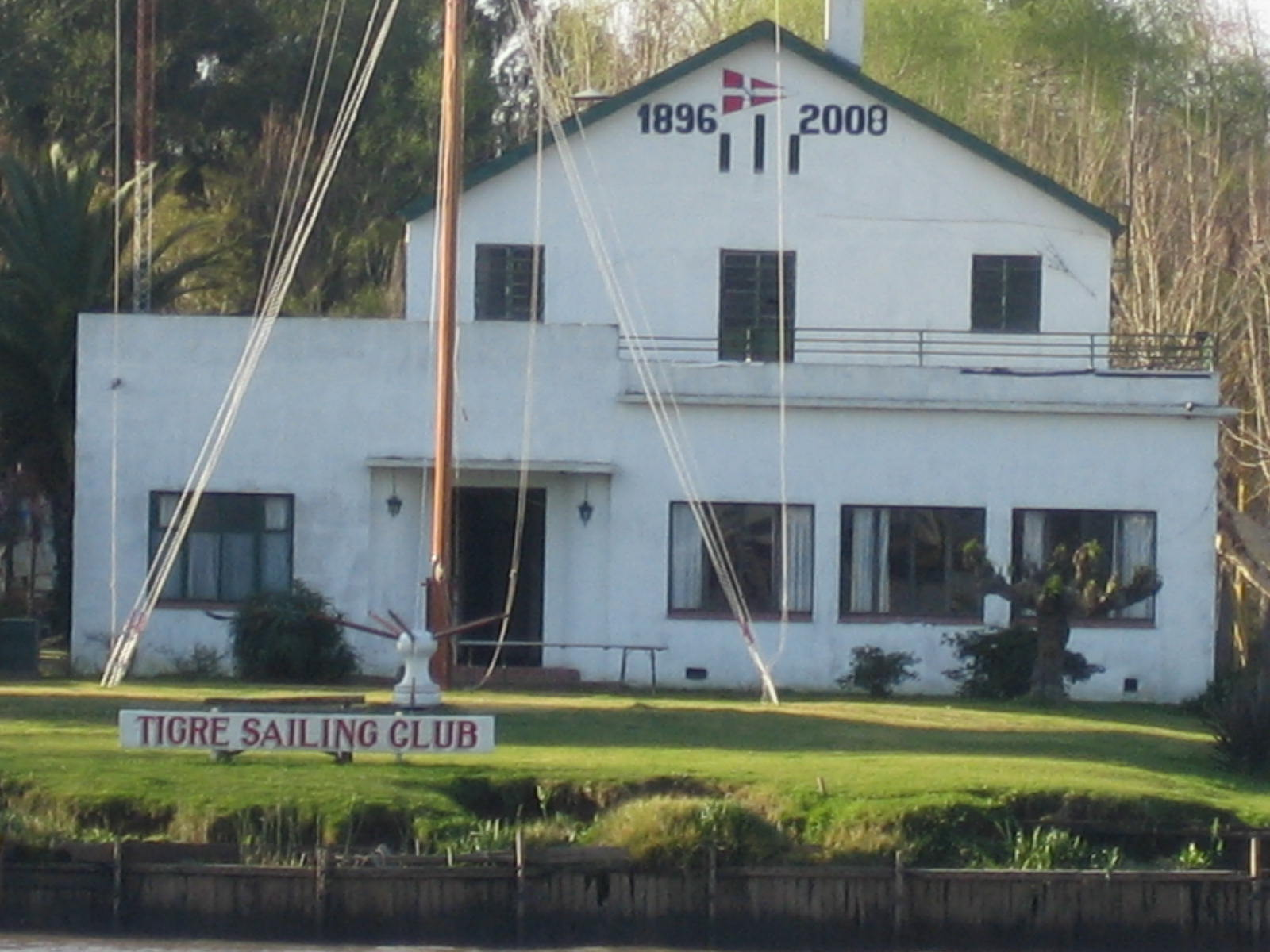 Tigre Sailing Club - El Tigre - Buenos Aires - Argentina